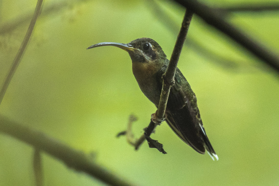 Band-tailed Barbthroat - Rio Tigre - Costa Rica_MG_8574